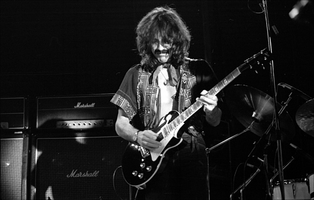 Manny Charlton, Nazareth, Njårdhallen, Oslo, Norway